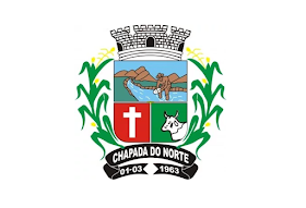 Flags of the city of Chapada do Norte, Minas Gerais, Brazil.